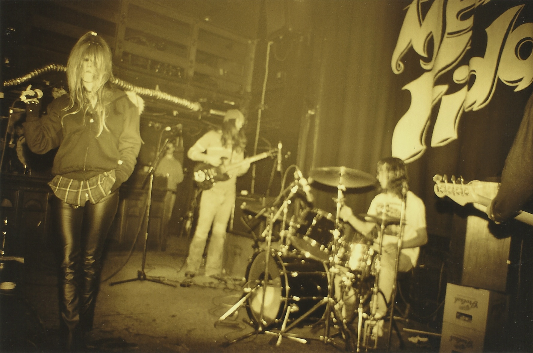 Royal Trux at Mean Fiddler, Harlesden, London, 1993 Early 90s American bands across England. Neate photos facebook page. More neate photos.